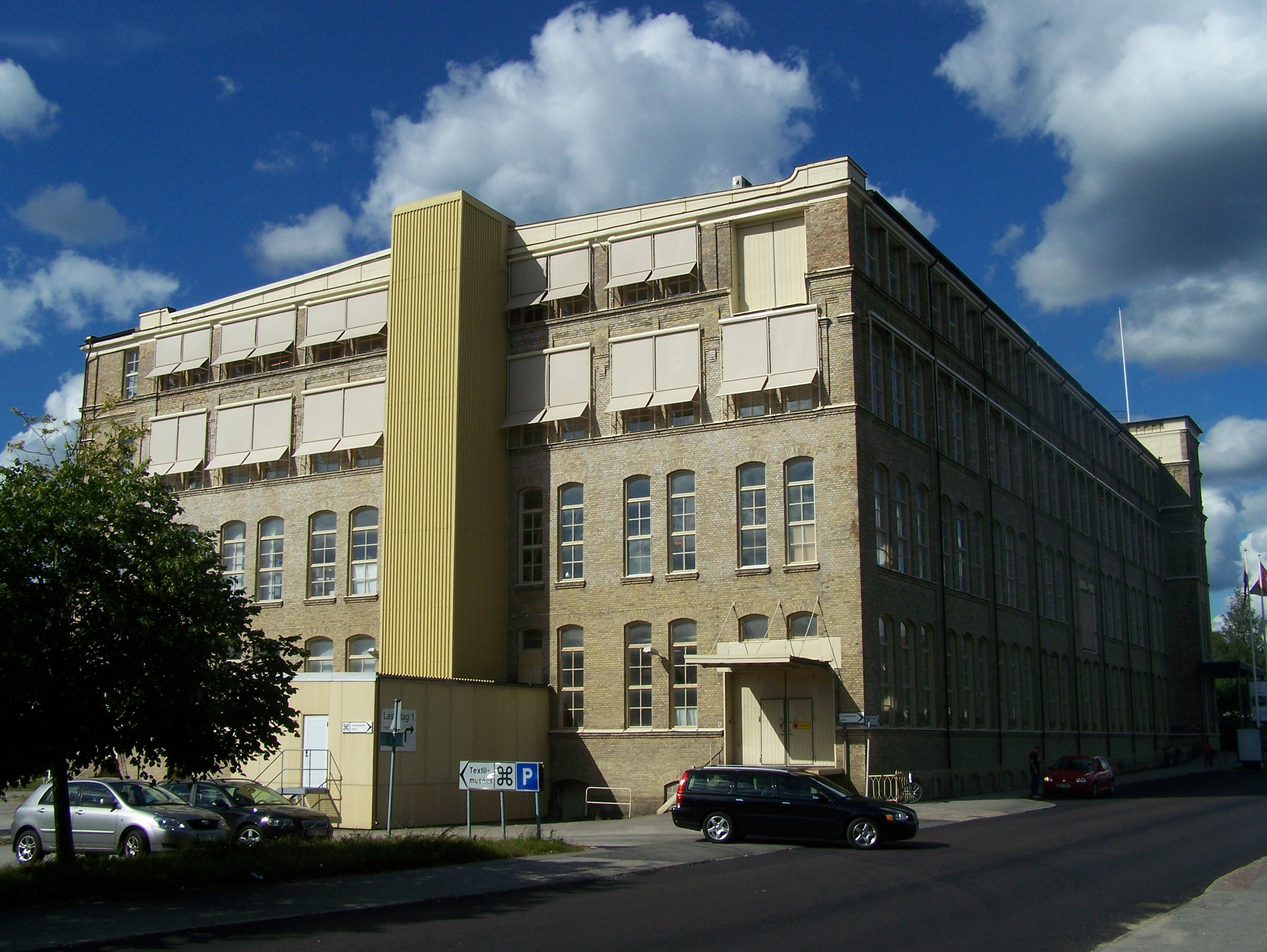 Former Textilmuseet i Borås. Built in 1898 as Åkerlund textile mill